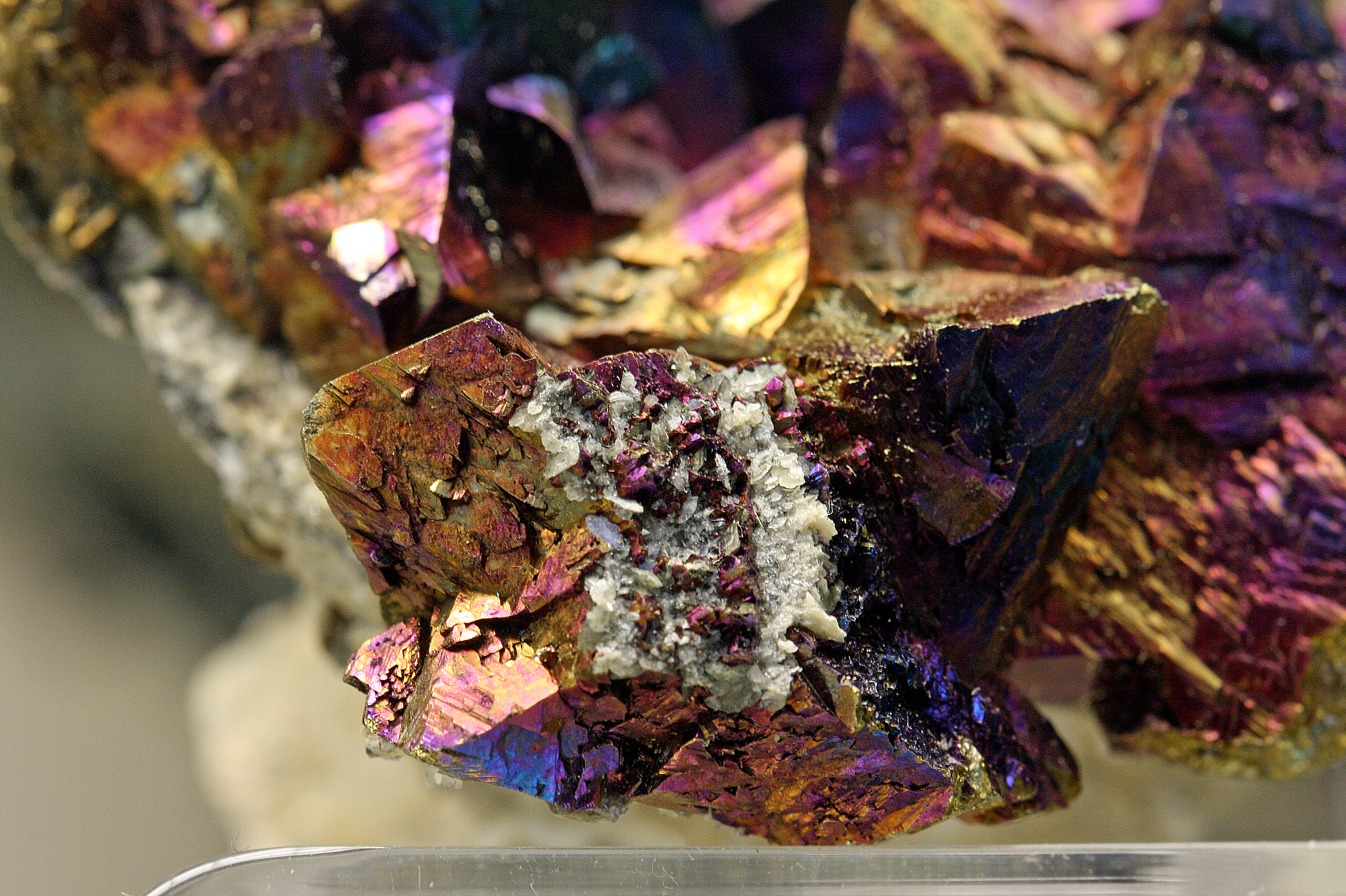 Chalcopyrite (natural annealing colour: Bornite) - Locality: Grube Georg, Westerwald - Exposed in the Mineralogical Museum, Bonn, Germany